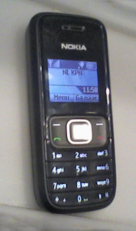 Nokia 1209